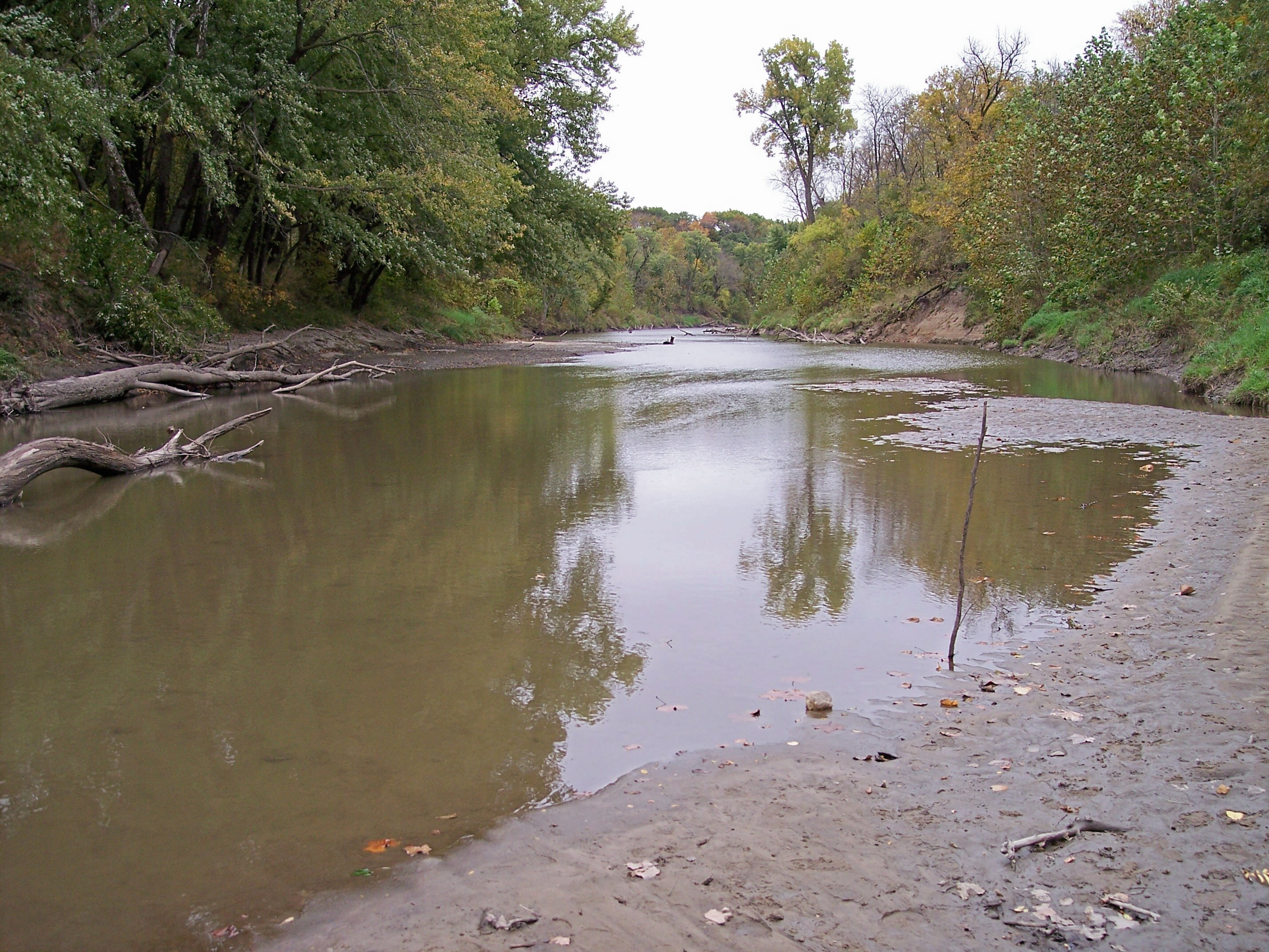 The One Hundred and Two River near Savannah, Missouri, as viewed at the Rock Quarry Fishing Access area on County Road 344, in Andrew County, Missouri